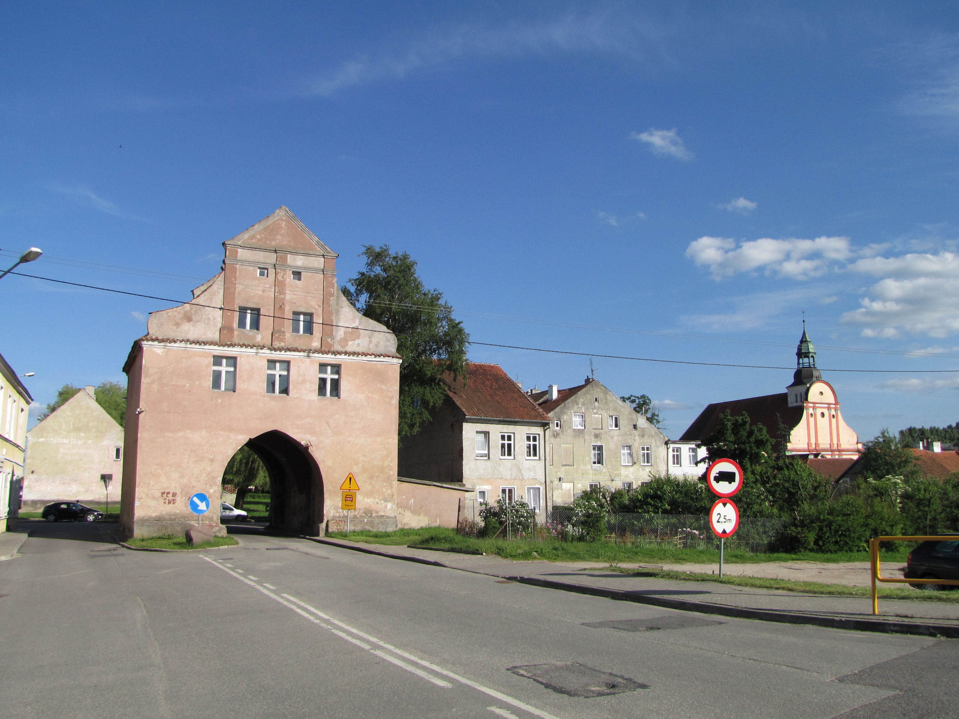 Bisztynek